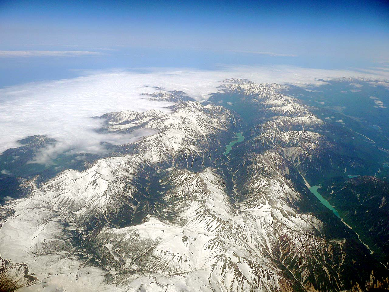 The source part of River Kurobe in Hida Mountains. It looks like big charactor "Y".